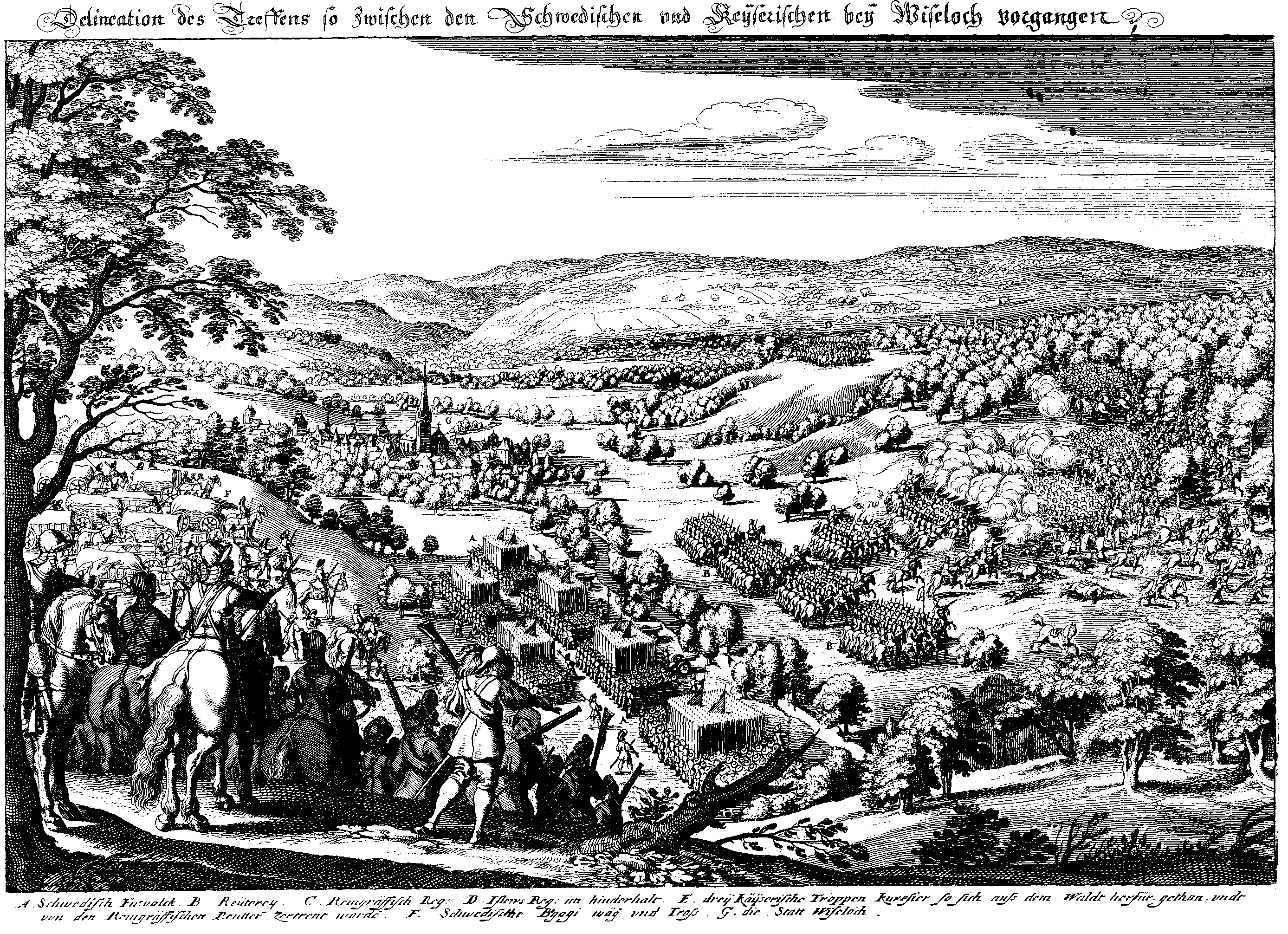 (Reprint um 1980) The Battle was 1632 in the Town Wiesloch; view from west to east